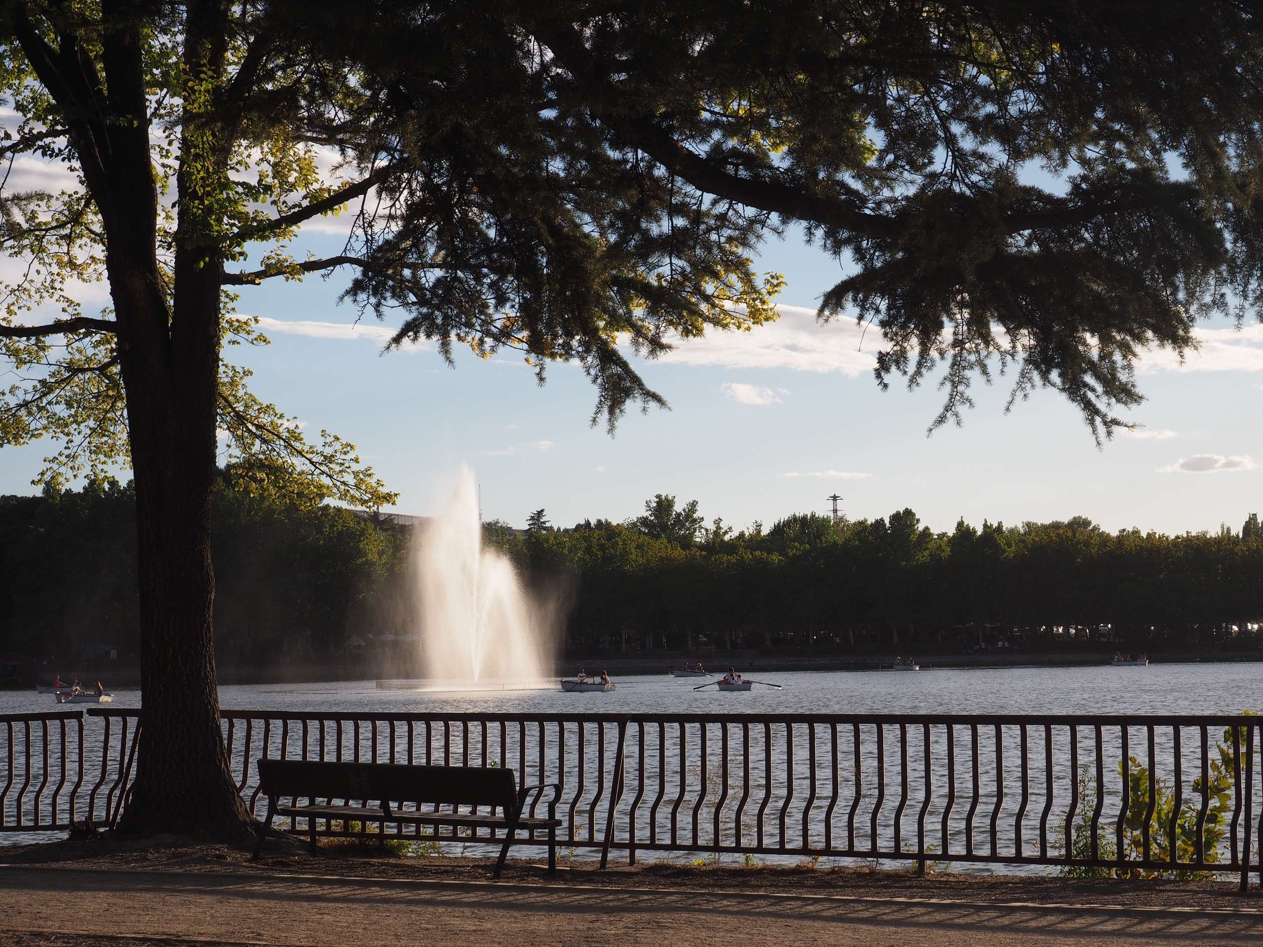 Casa de campo